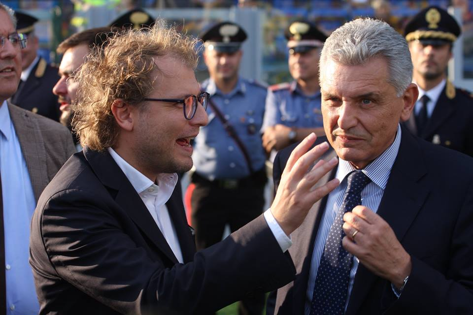 Maurizio Stirpe, Italian businessman and chairman of Italian football club Frosinone Calcio (on the right) with Luca Lotti, Italian Minister of Sport (on the left) at the Benito Stirpe Stadium operning ceremony - 28/9/2017